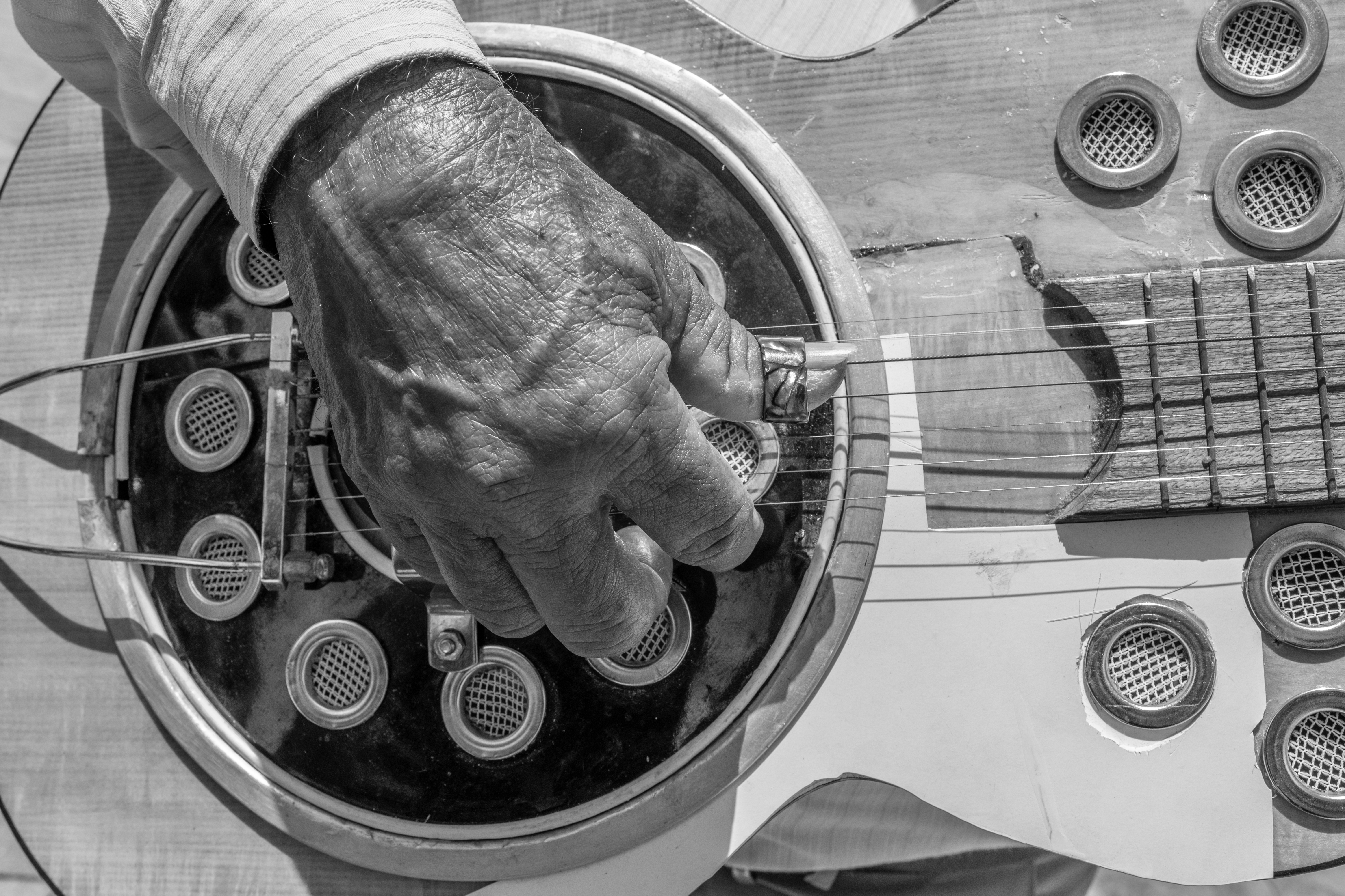 Man playing an acoustic brazilian guitar (Violão) on Marco Zero Square, Refice, Pernambuco, Brazil.Play music of this image